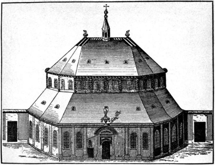 The city of Caen's Protestant Temple, built in 1611 and destroyed in 1685 following the Edict of Fontainebleau